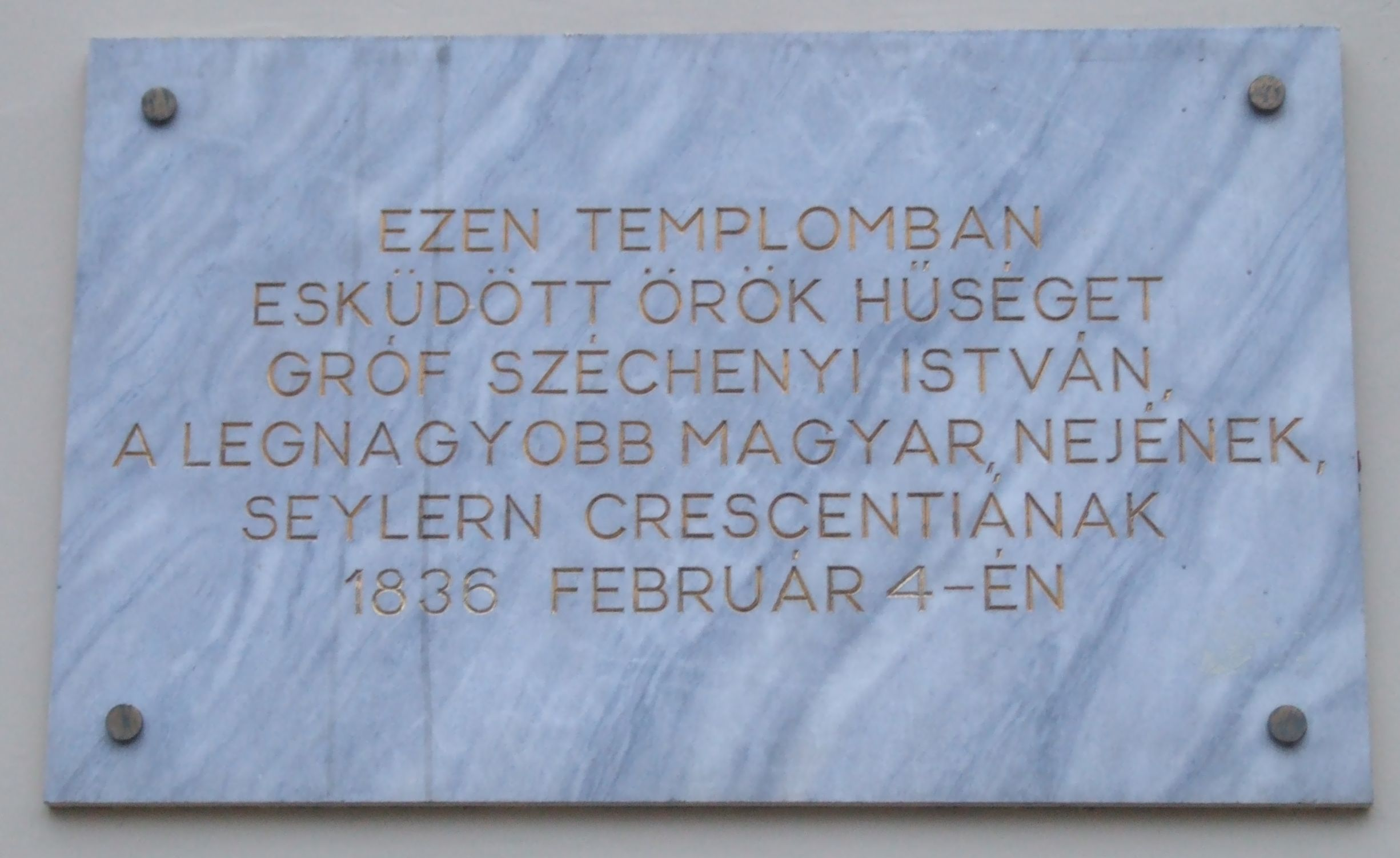 István Széchenyi and Crescence Seilern commemorative plaque in Budapest District I, Church of Krisztinaváros, Mészáros Street No 1